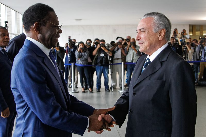 President Michel Temer greets CPLP heads of state.